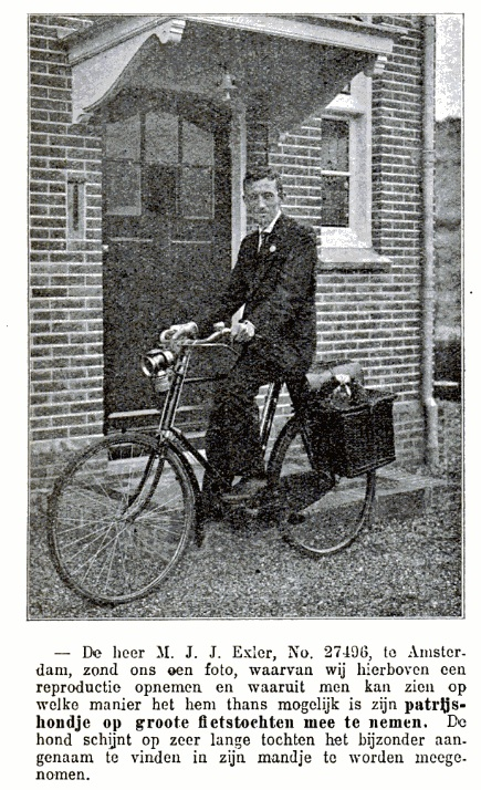 Literary website assumes this is Dutch writer M.J.J. Exler demonstrating how to transport your dog on a bicycle. Rare photo.